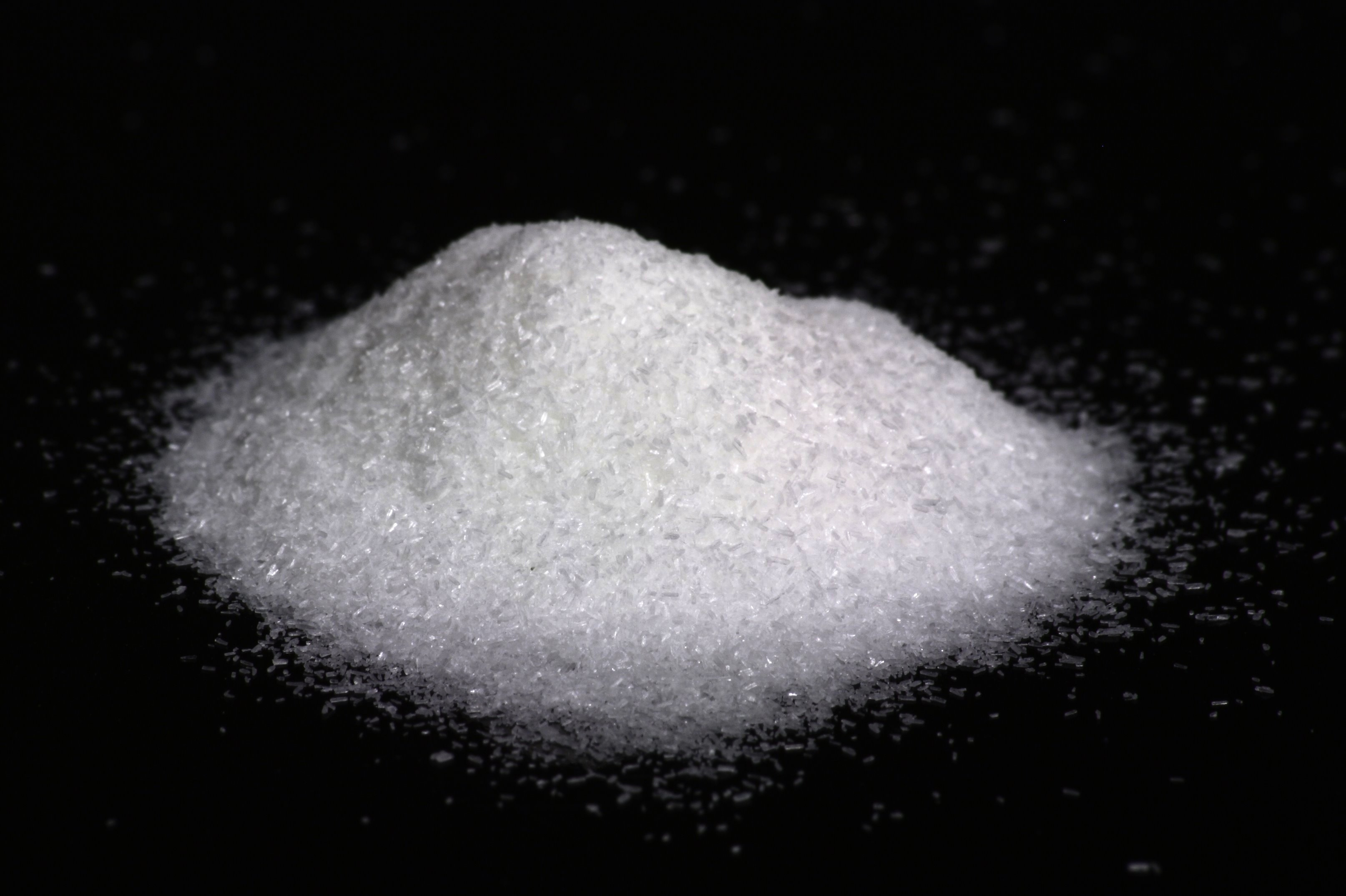 Crystals of the food additive monosodium glutamate (MSG), from a container branded as "Mimi's Products".